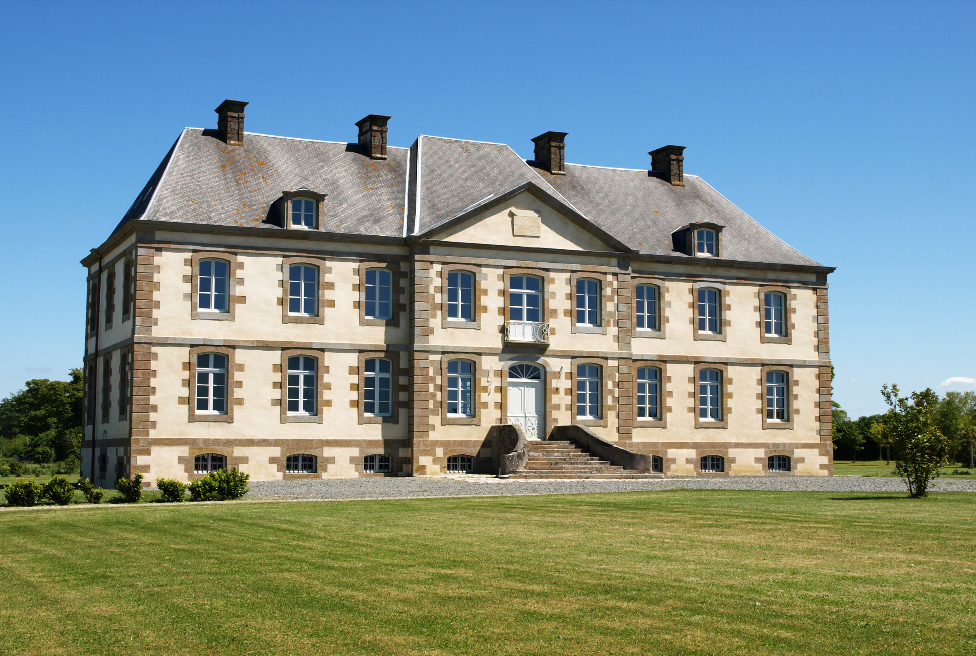 Château d'Annoville